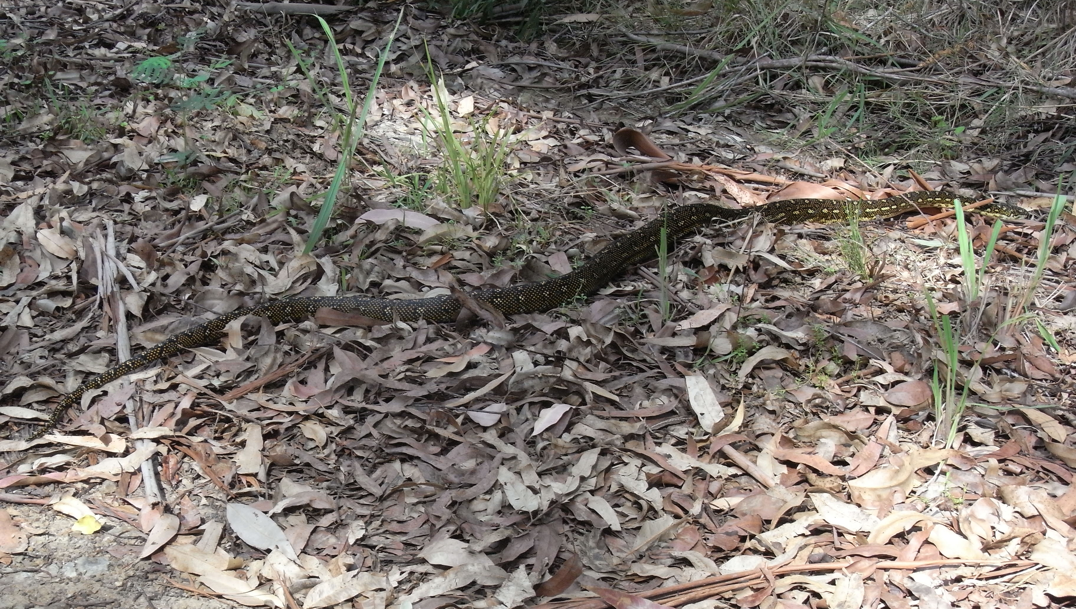 Wild Diamond Python (Morelia spilota spilota), length about 2 meters, next to Sugar Creek Road, Wallingat National Park, Australia.